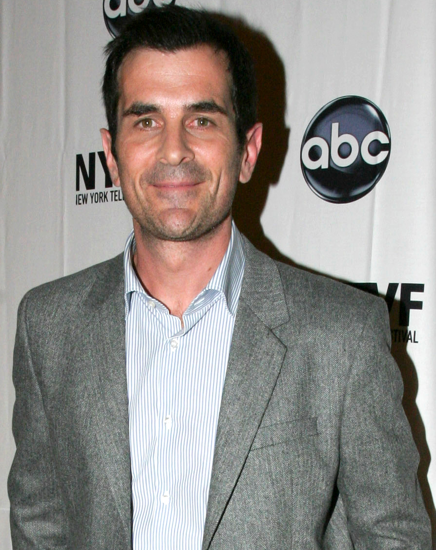 Ty Burrell at the New York Television Festival.